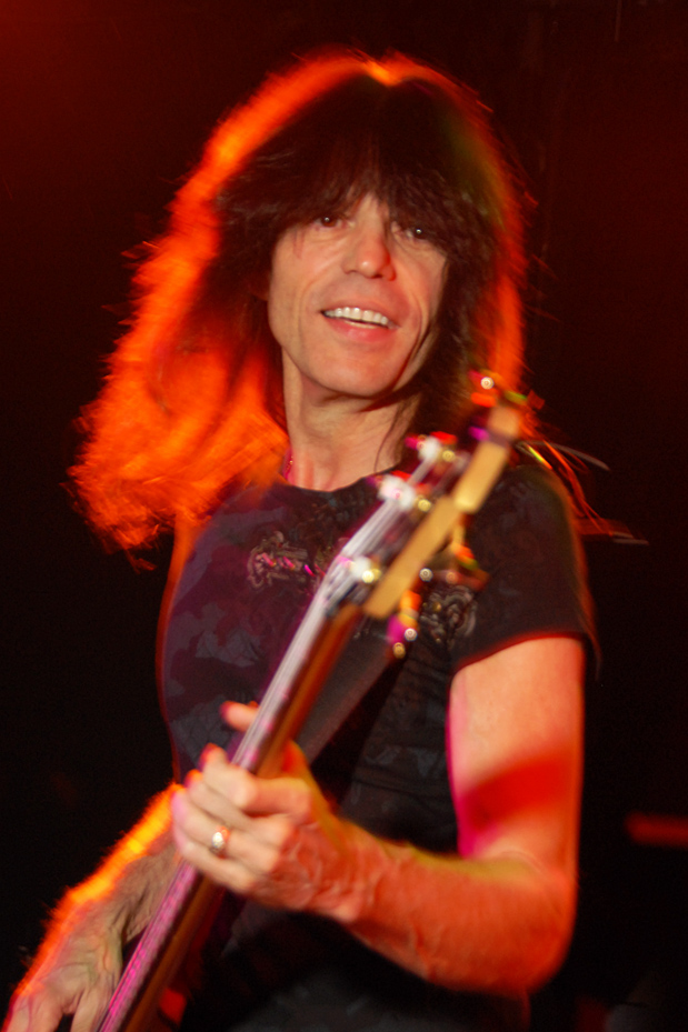 Rudy Sarzo performing at The Roxy, West Hollywood, CA on Oct. 11, 2009 - Photo by Glenn Francis of